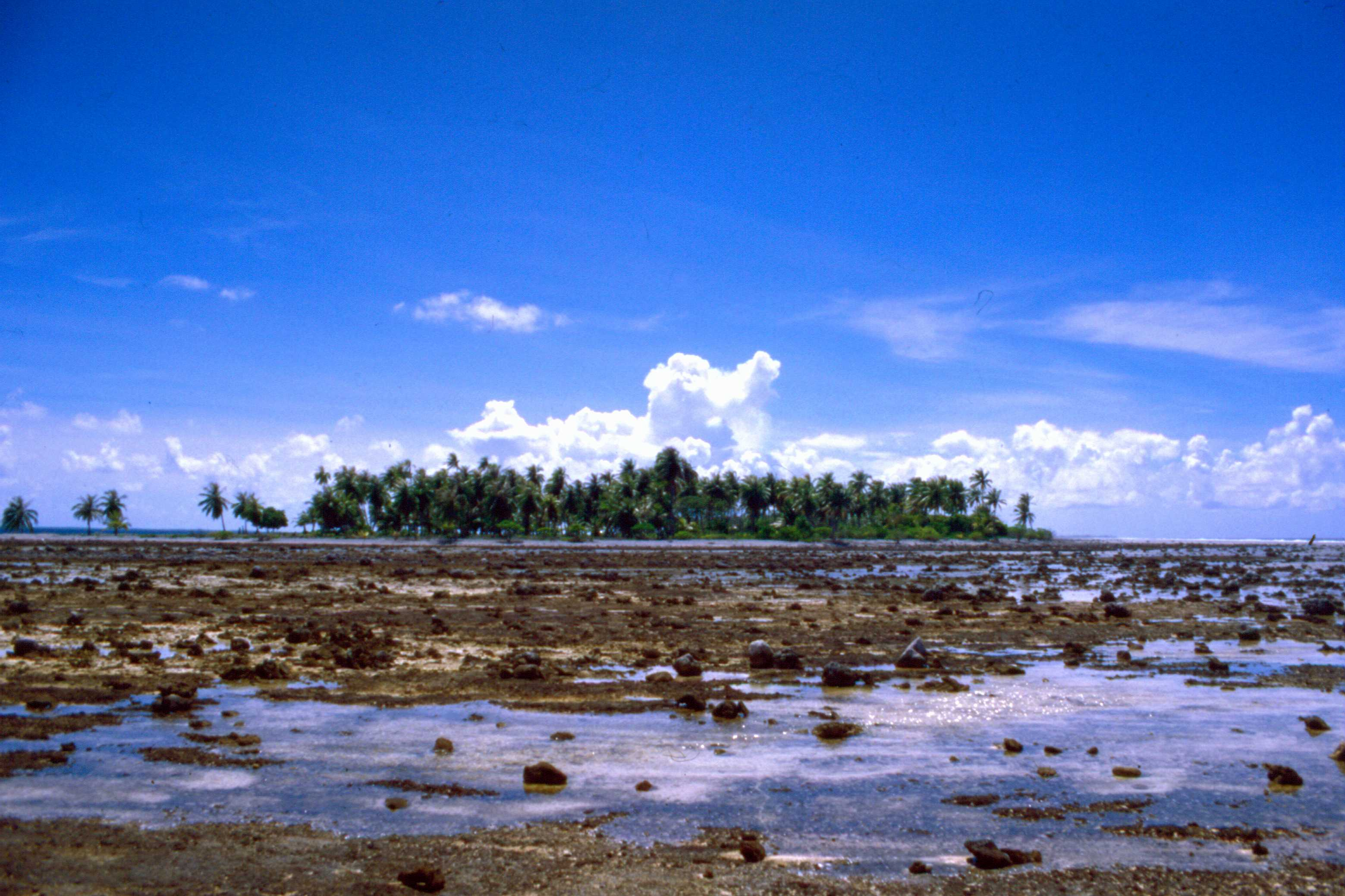 One of the uninhabited Motus of Mataiva Atoll, Tuamotu Archipelago, French Polynesia